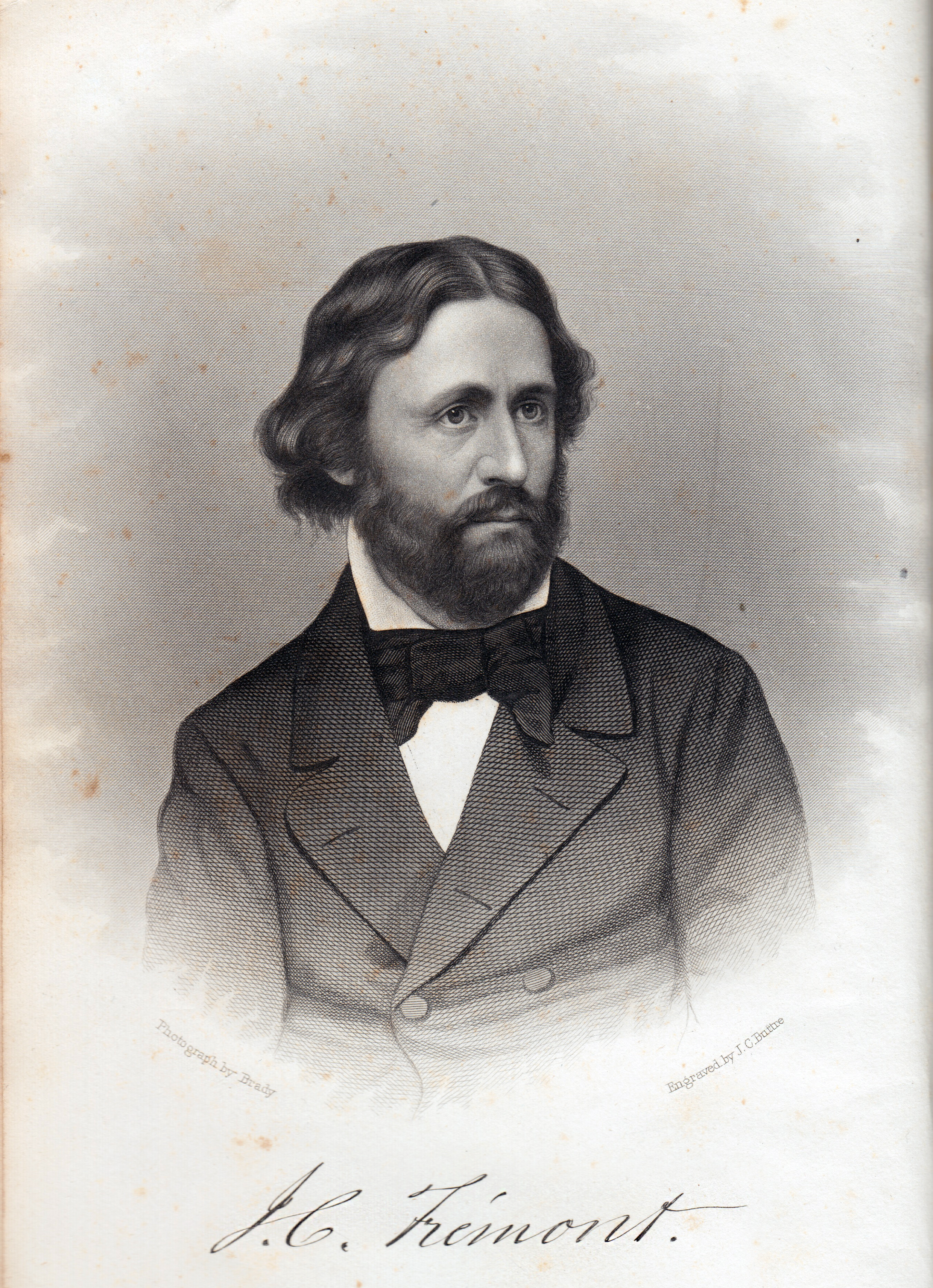 Portrait of John C. Frémont (Steel engraving with signature) from a photo by Matthew Brady